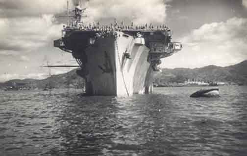 HMS Speaker (D90), a Bogue-class escort aircraft carrier, based on a "C3" hull, was originally the USS Delgada (AVG/ACV/CVE-40) which was transferred to the United Kingdom under the Lend-Lease program.